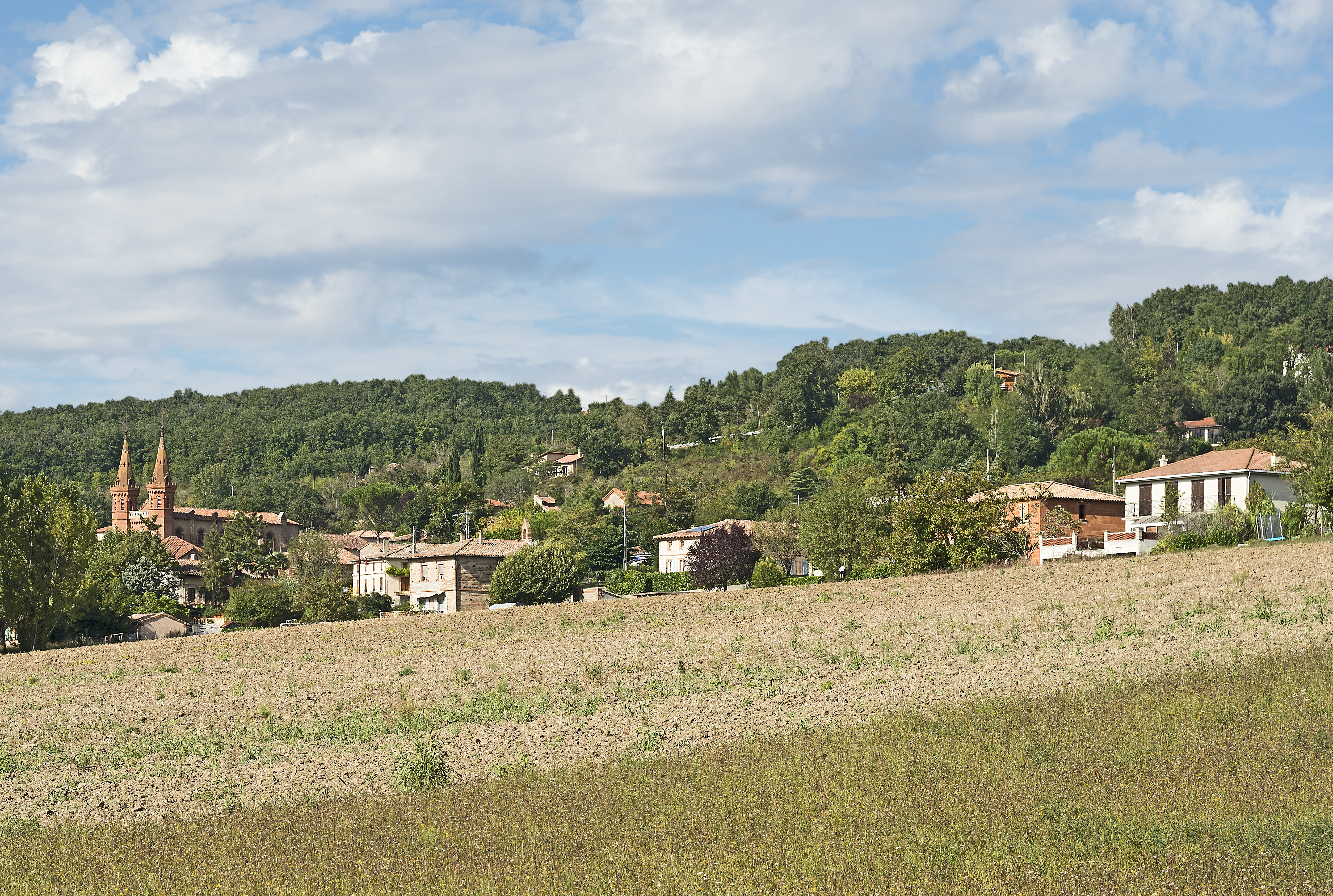 Saint-Rustice. The village views to the north.